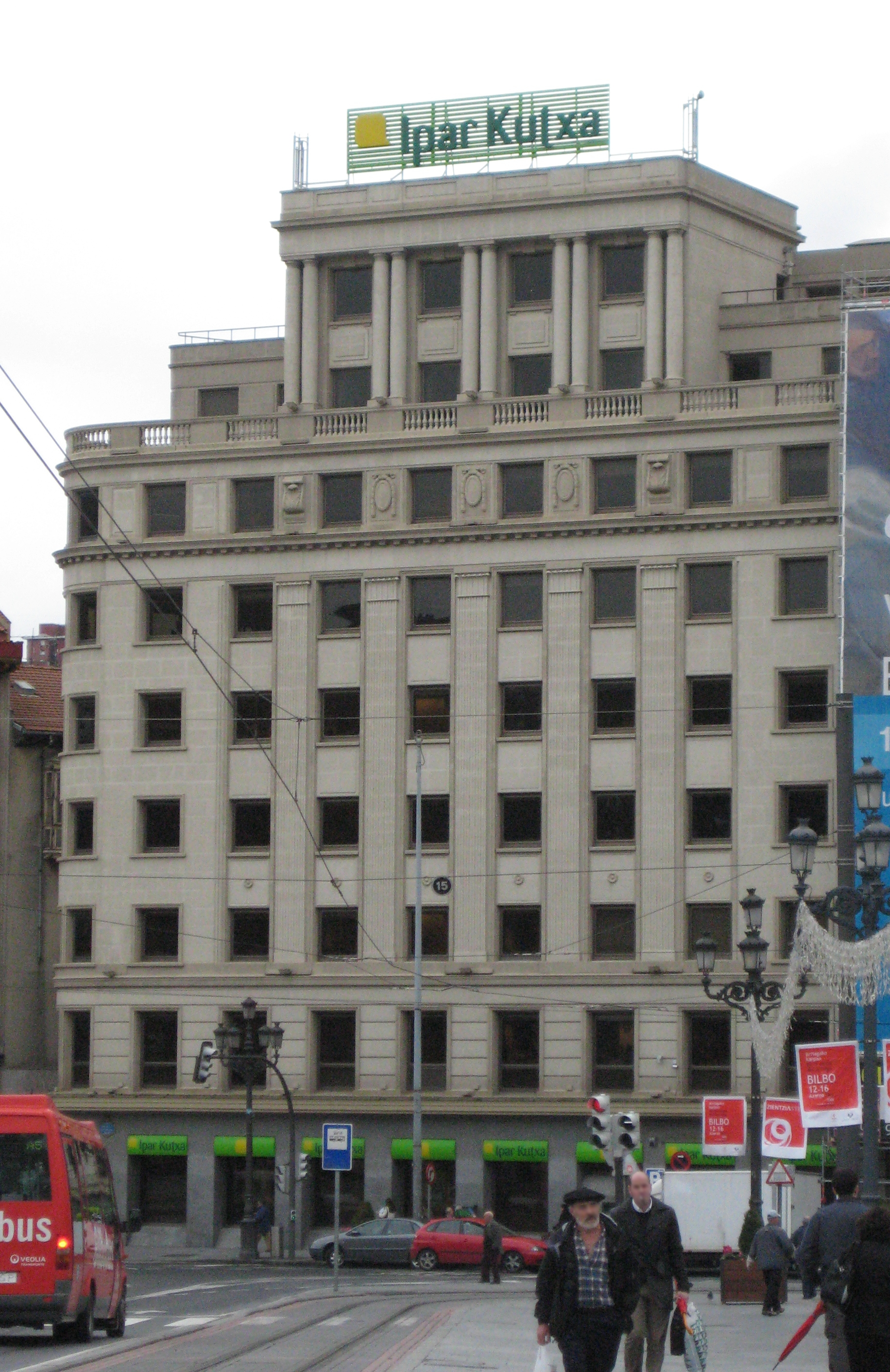 Ipar Kutxa office building, Bilbao